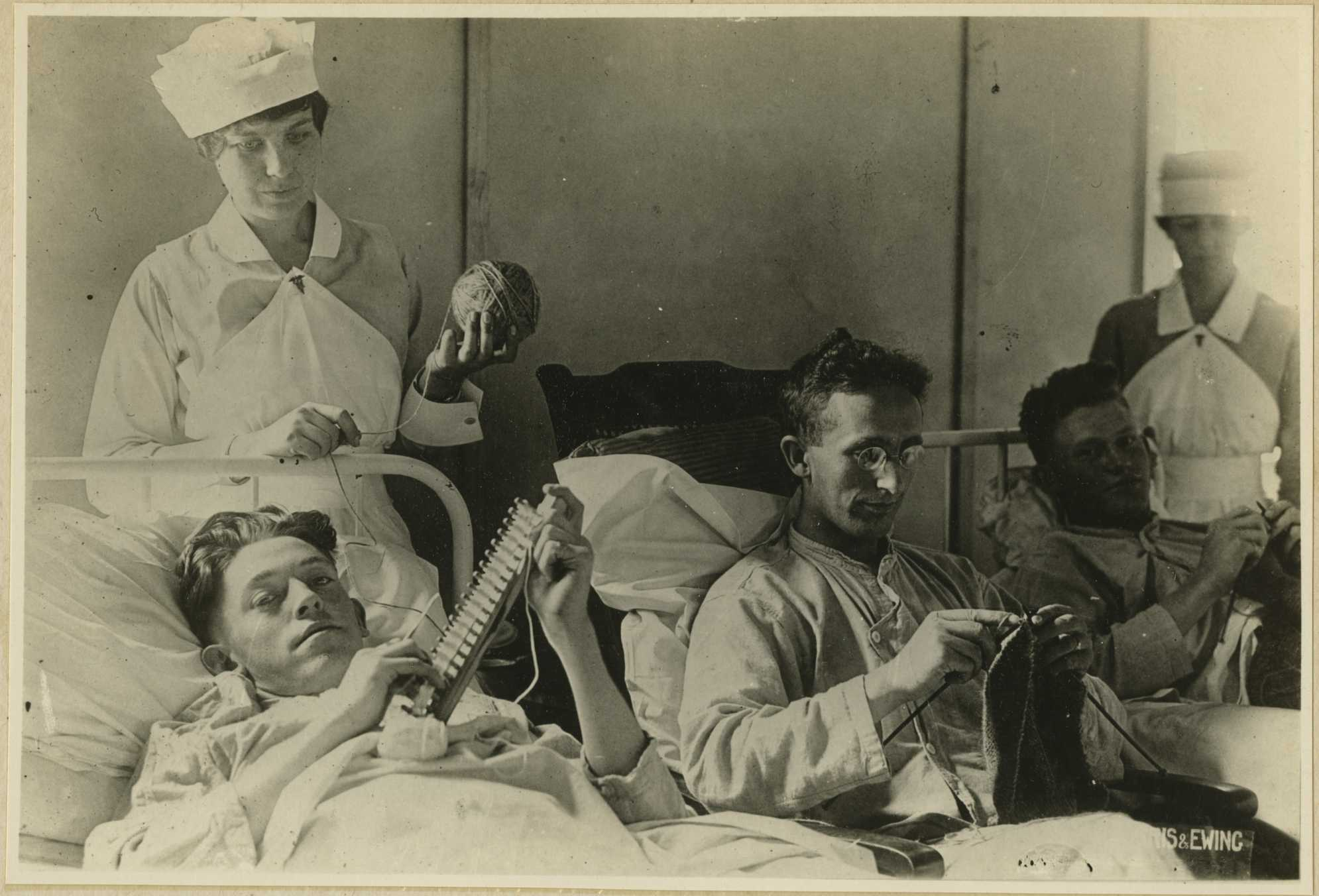 Occupational therapy. Bed-ridden wounded, knitting.